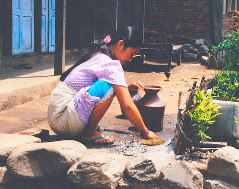 Squat woman at the dishwashing in Nepal